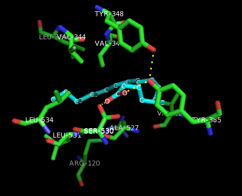 Archidonic acid bound to COX-2